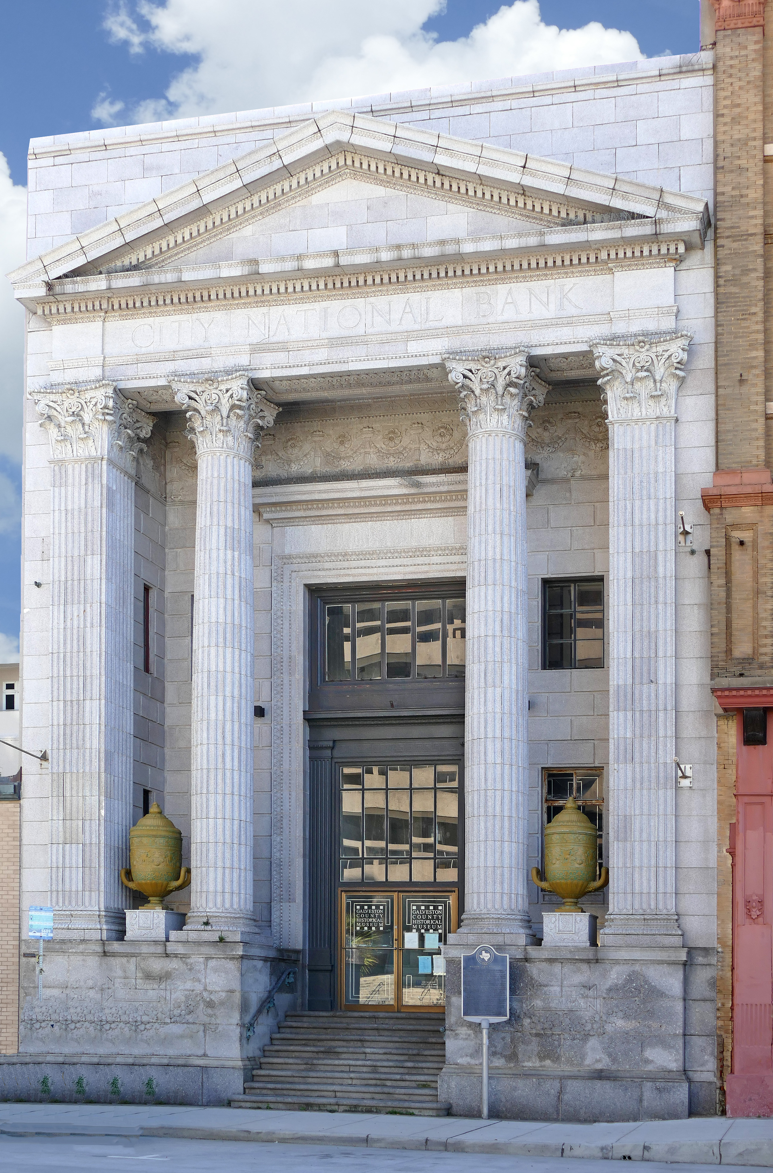 The City National Bank (CNB) was a bank and is also the name of its historic building in Galveston, Texas. This building is in the National Register of Historic Places